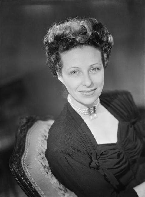 Studio photo